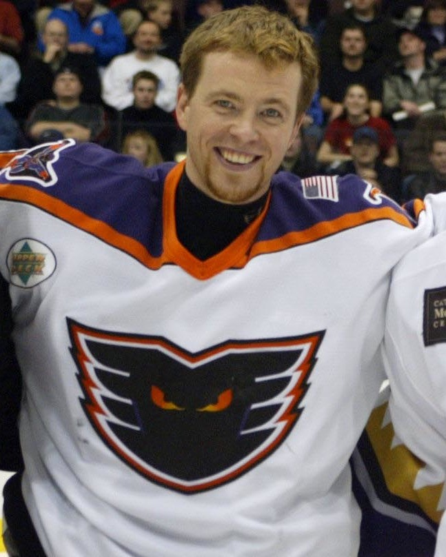 Photo: James Baker/AHL